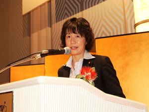 Yasue Funayama, Parliamentary Secretary of Agriculture, Forestry and Fisheries, attended the Cosmos Prize Ceremony in Ōsaka City, Ōsaka Prefecture on October 27, 2009.(For terms of use, see 農林水産省/リンクについて・著作権.)